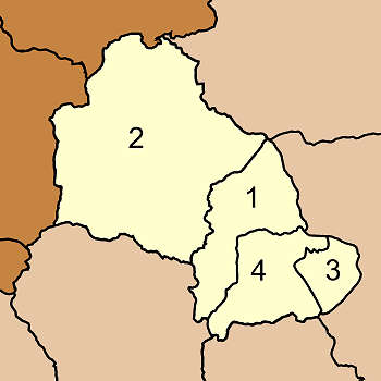 Map of Nopphitam district, Nakhon Si Thammarat province, Thailand, with the communes (tambon) numbered. Nopphitam (นบพิตำ) Krung Ching (กรุงชิง) Ka Ro (กะหรอ) Na Reng (นาเหรง)